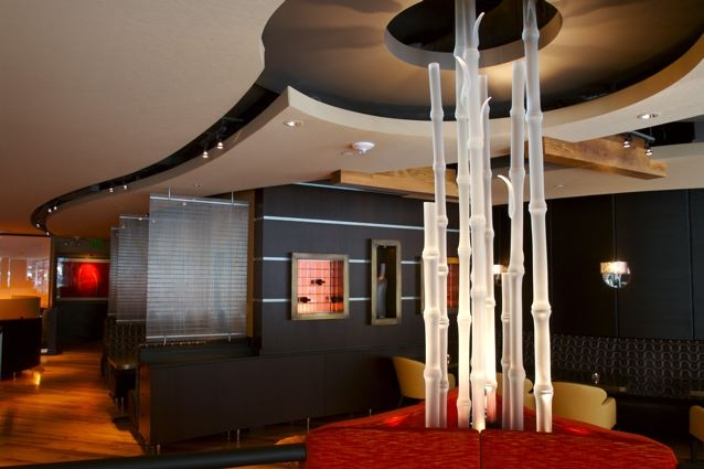 Jean-Pierre Canlis glass bamboo installation at BOKA restaurant+bar